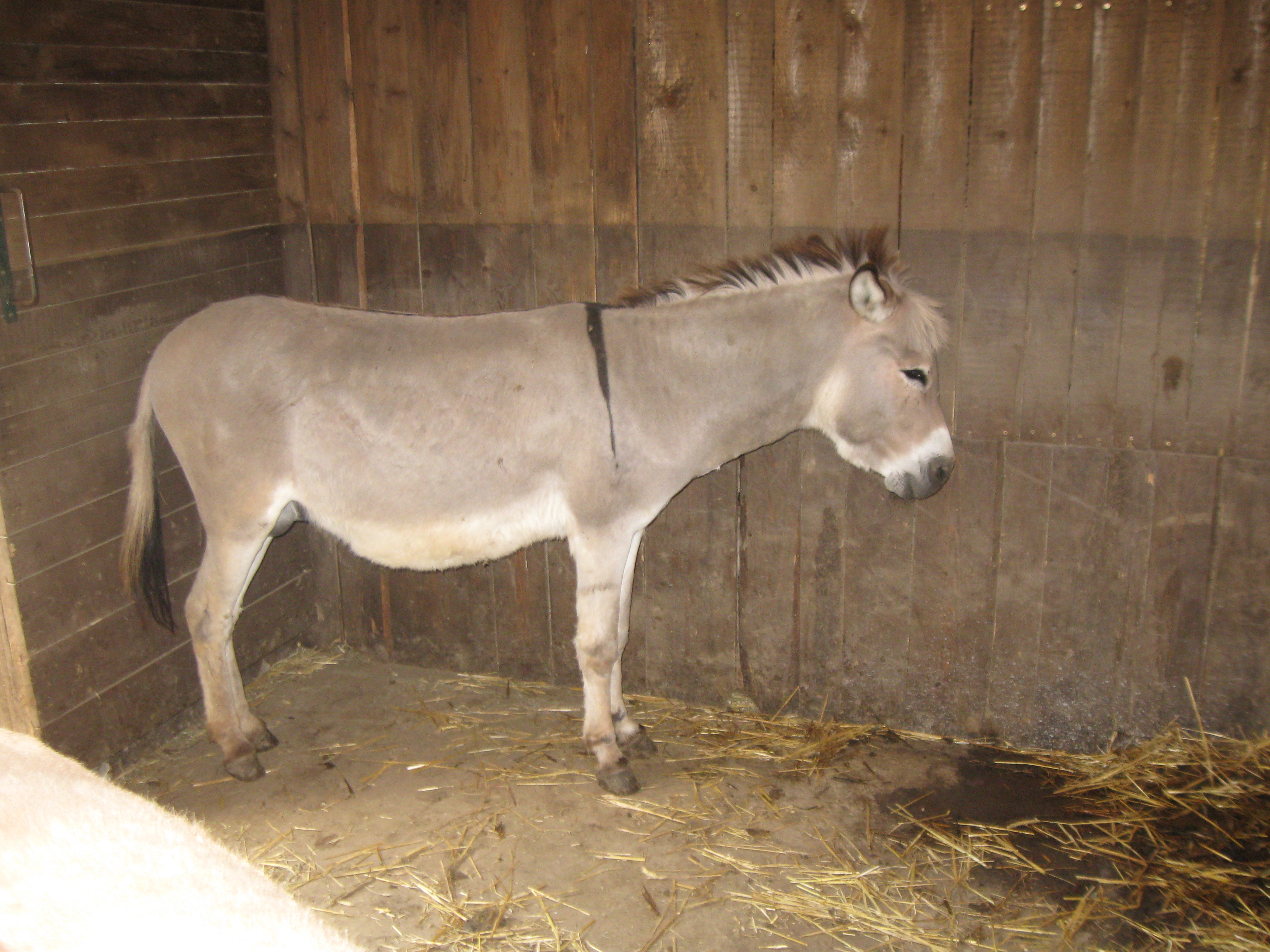 A Thuringian wood-donkey in Wildpark Hundshaupten